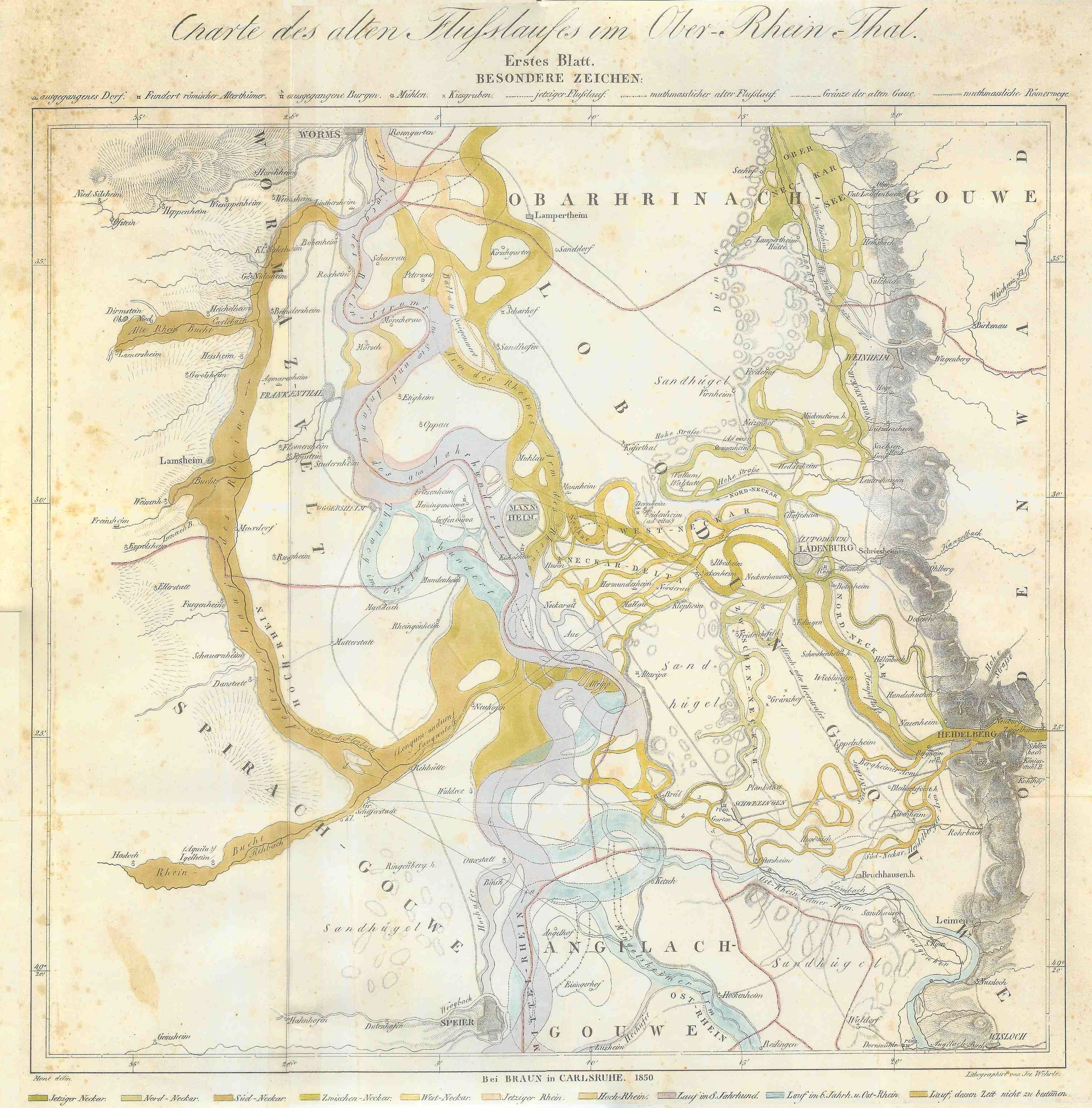 Historic map of different riverbeds of Rhine and Neckar from the 6th century until 1850